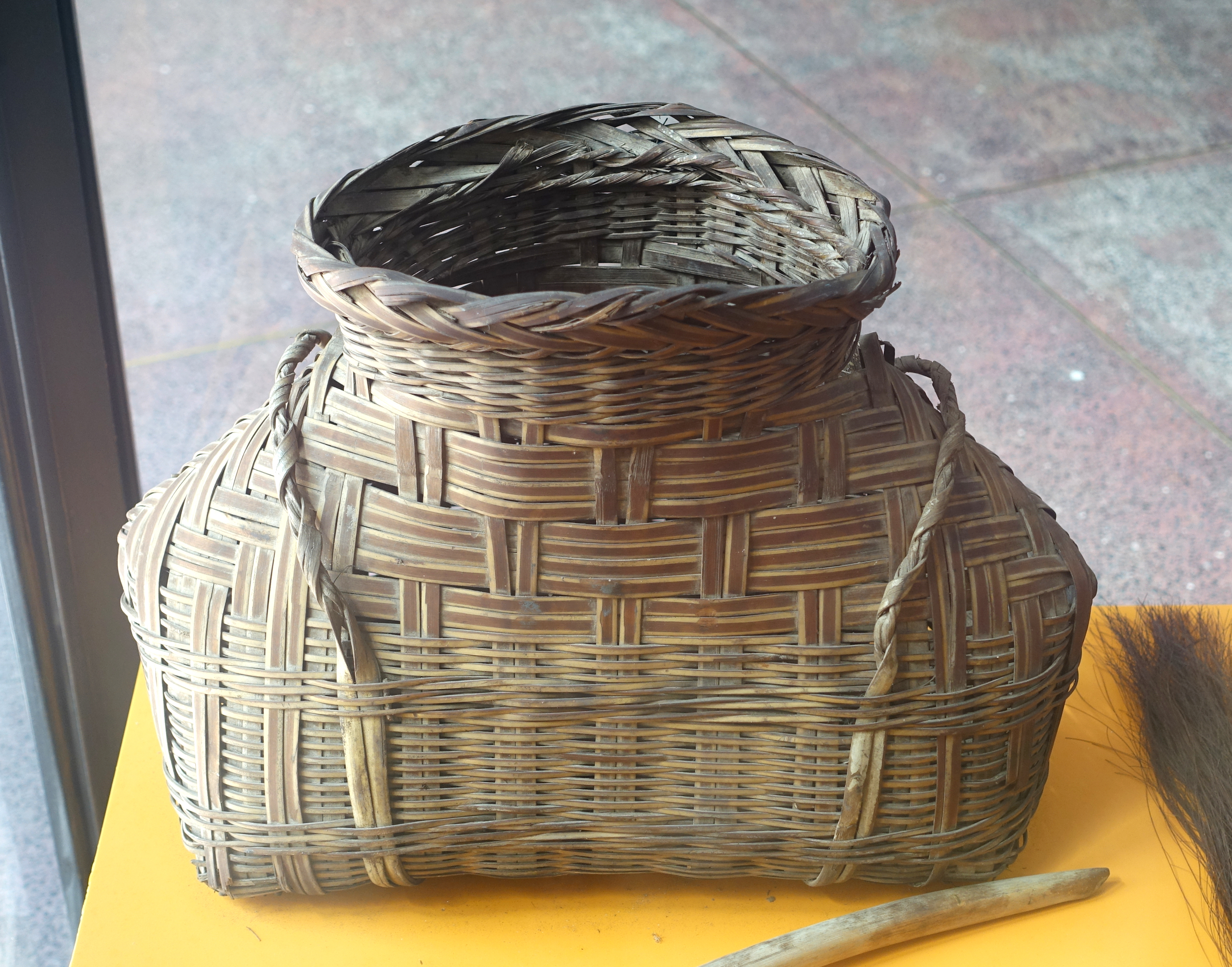 Exhibit in the Vietnam Museum of Ethnology - Hanoi, Vietnam.